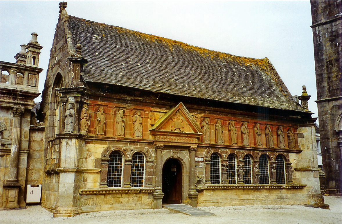 Ossary of Sizun, Brittany, France